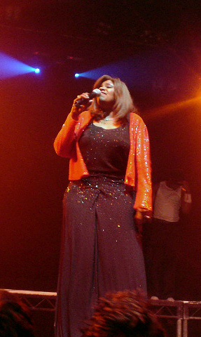 Gloria Gaynor in 2003.